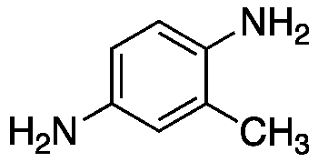 an ingredient in hair dyes